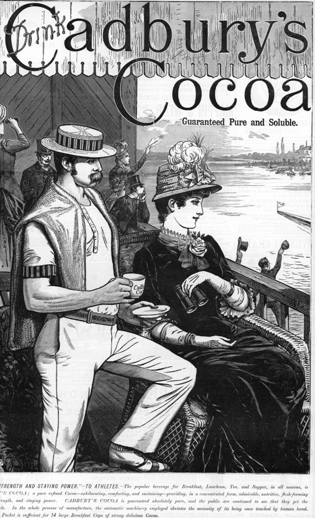 "Drink Cadbury's Cocoa" advertisement with rower and lady friend - B&W engraving - 1885